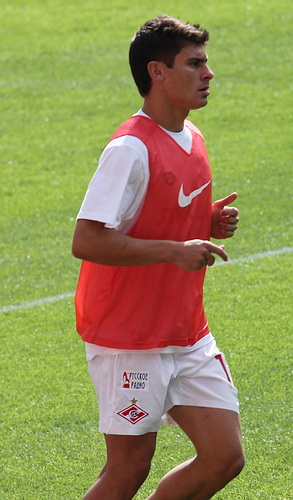 Alex Raphael Meschini